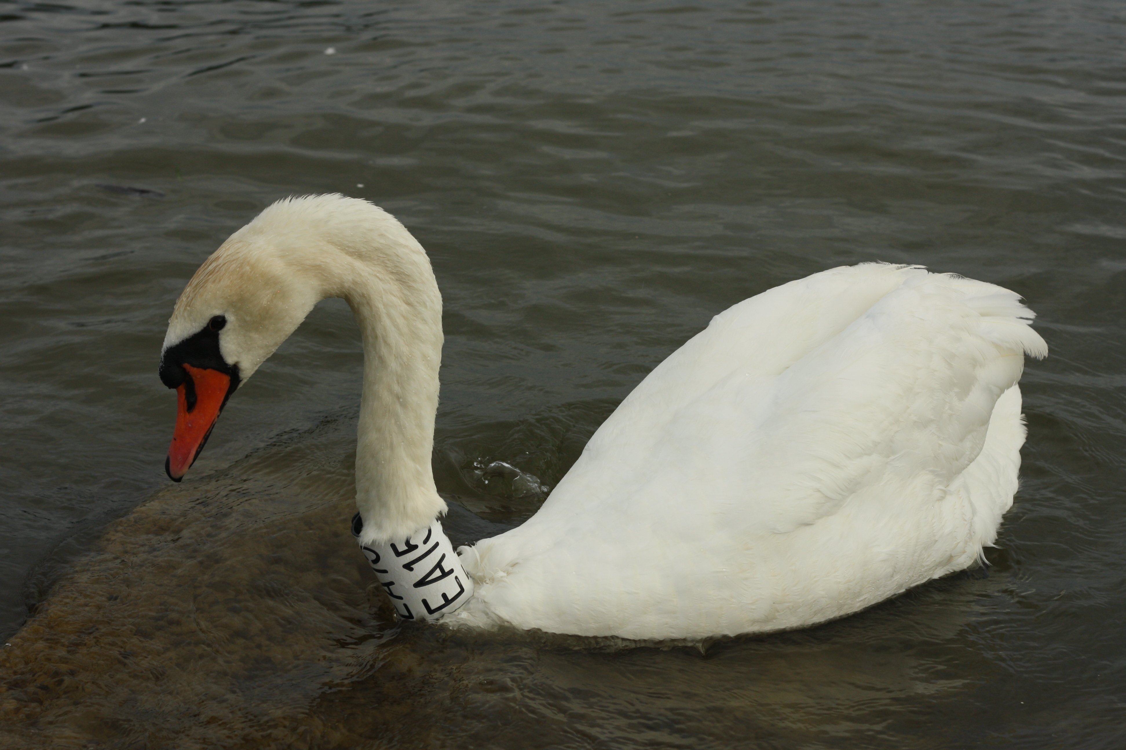 Mute Swan with neck collar seen in Irondequoit, New York